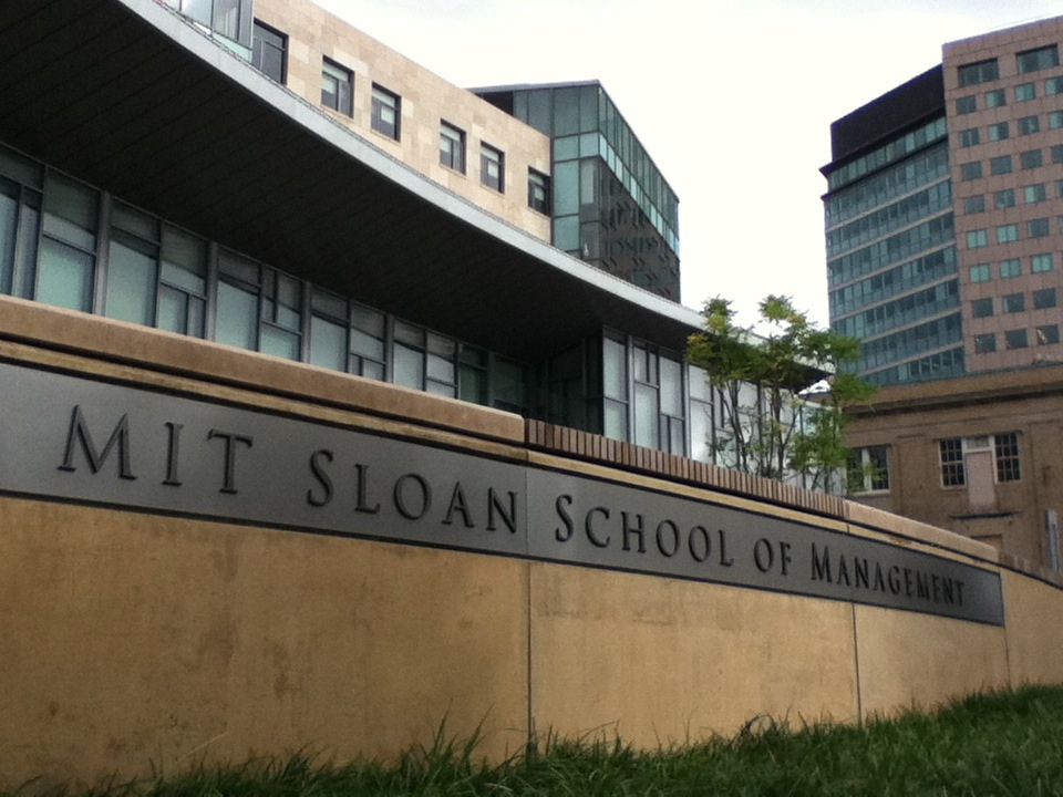 MIT Sloan School of Management building E62. Creative Commons Generic 2.0 license. Please credit to Ian Lamont and link to